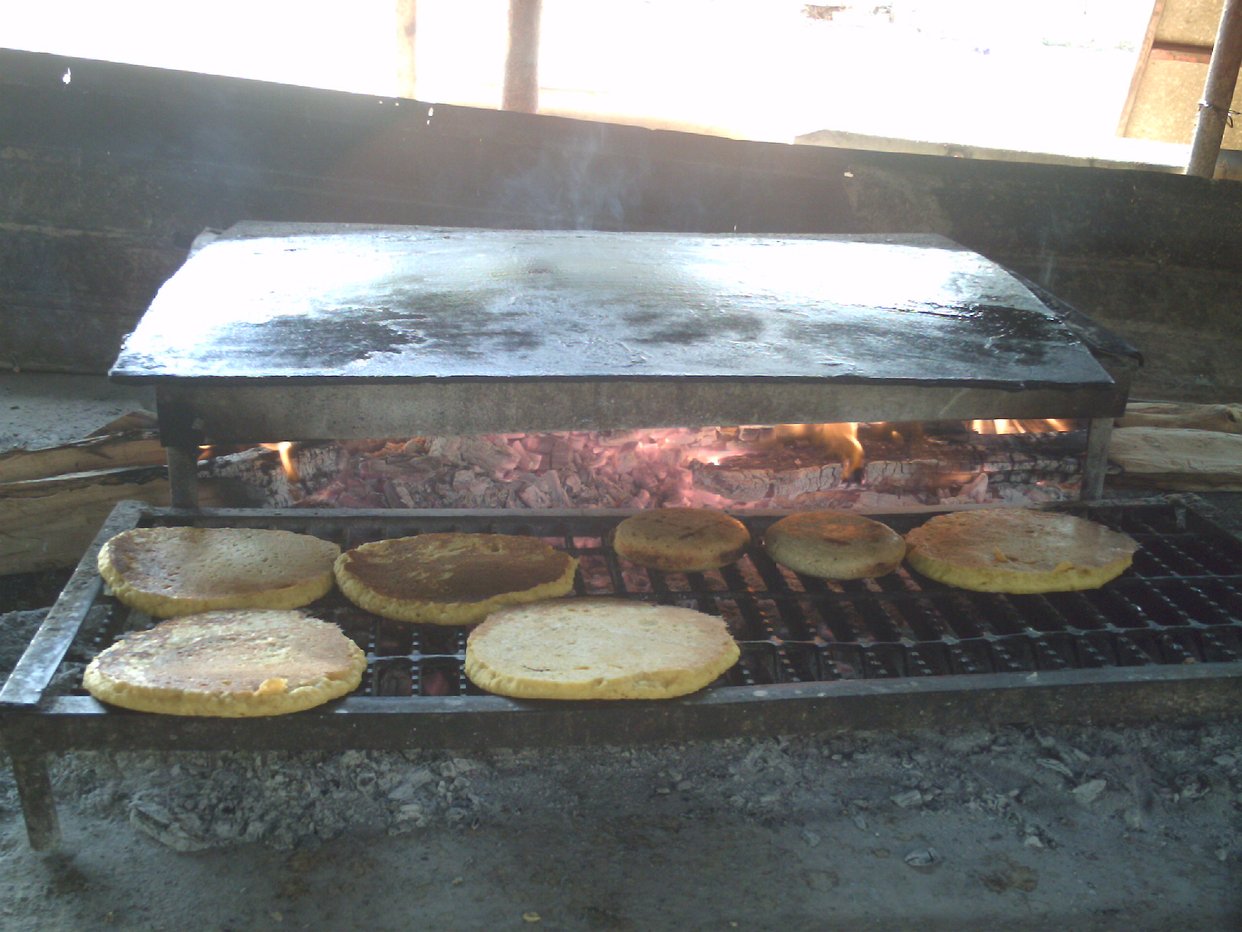 From the Lara State, Venezuela